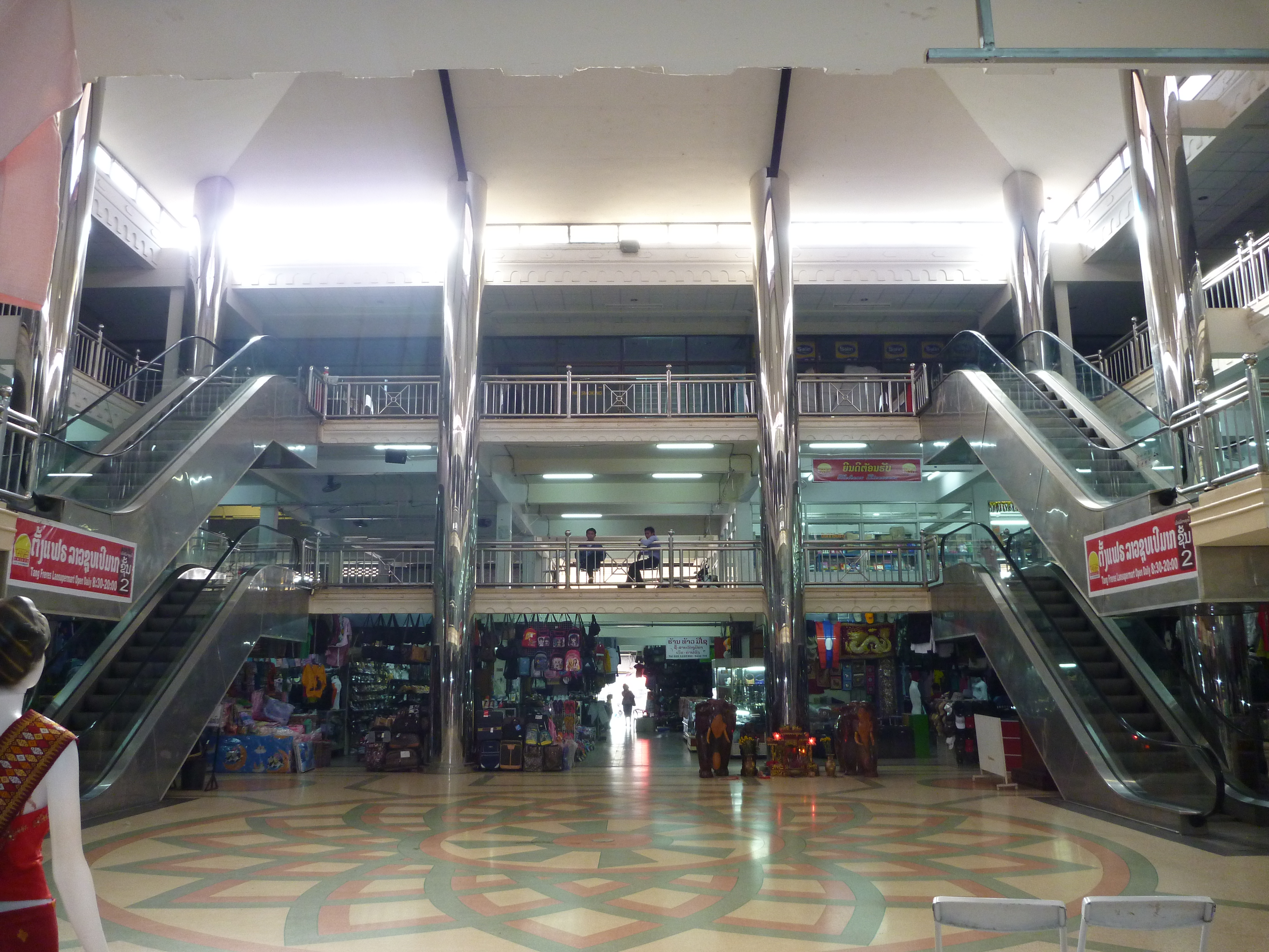 Champassak Shopping Center inside